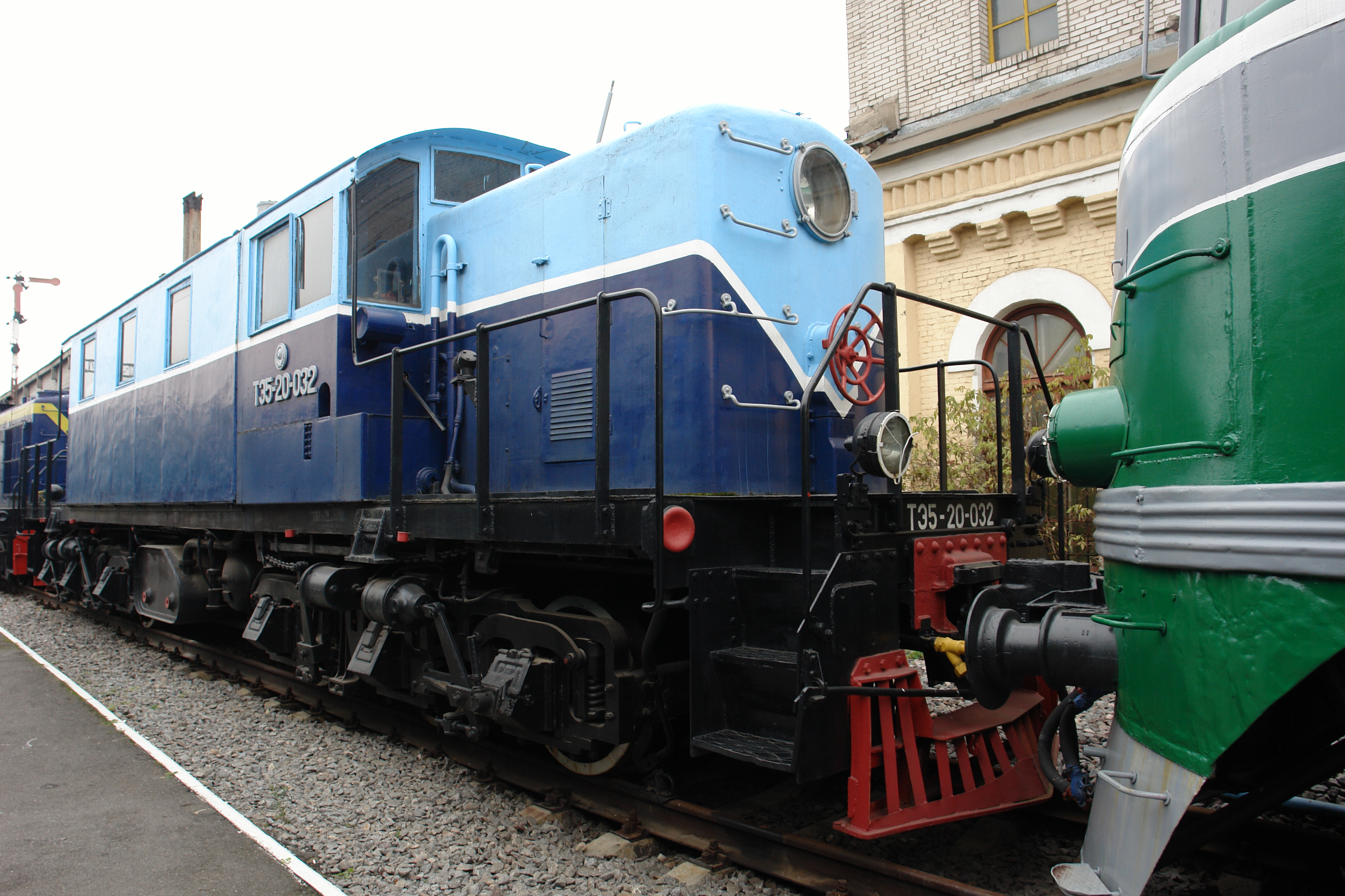 Freight and passenger diesel locomotive TE5-20-032 (test unit) Weight in working order120 t.Design speed93 kphPower1OOOhpTransmissionelectric Built by the Khar'kov Transport Machine-building Works in 1948. This Is a modification of the class TE1 diesel locomotive for use in the extremely low temperatures of the far north. Worked on Moscow-Kursk, Northern, Orenburg and Turkestan-Siberian railways. Received by the museum from the UM Trust at Cheliabinsk in 1992.